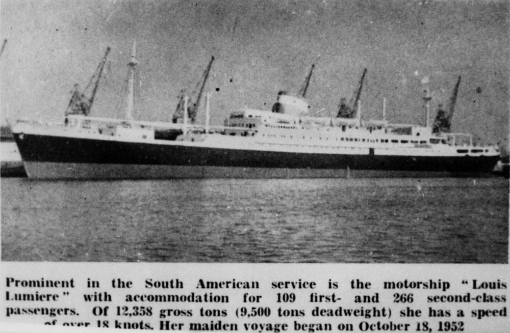 French 12,358 GRT passenger motor ship Louis Lumiere in port. Penhoët of St Nazaire built her in 1951 for Chargeurs Réunis. In 1962 she was transferred to Messageries Maritimes. In 1967 Hong Kong owners bought her, renamed her Mei Abeto and registered her in Panama. She was scrapped at Chittagong in Bangladesh in 1984.